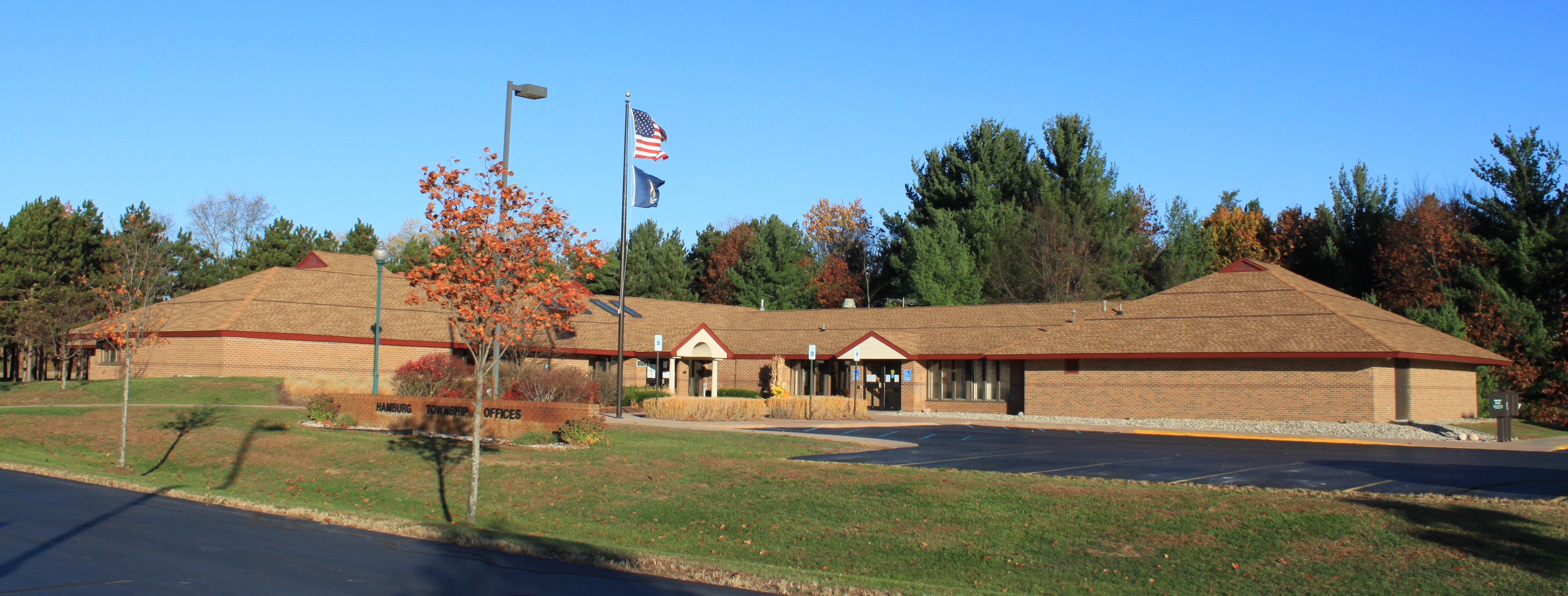 Hamburg Township Hall, Merill Road, Michigan